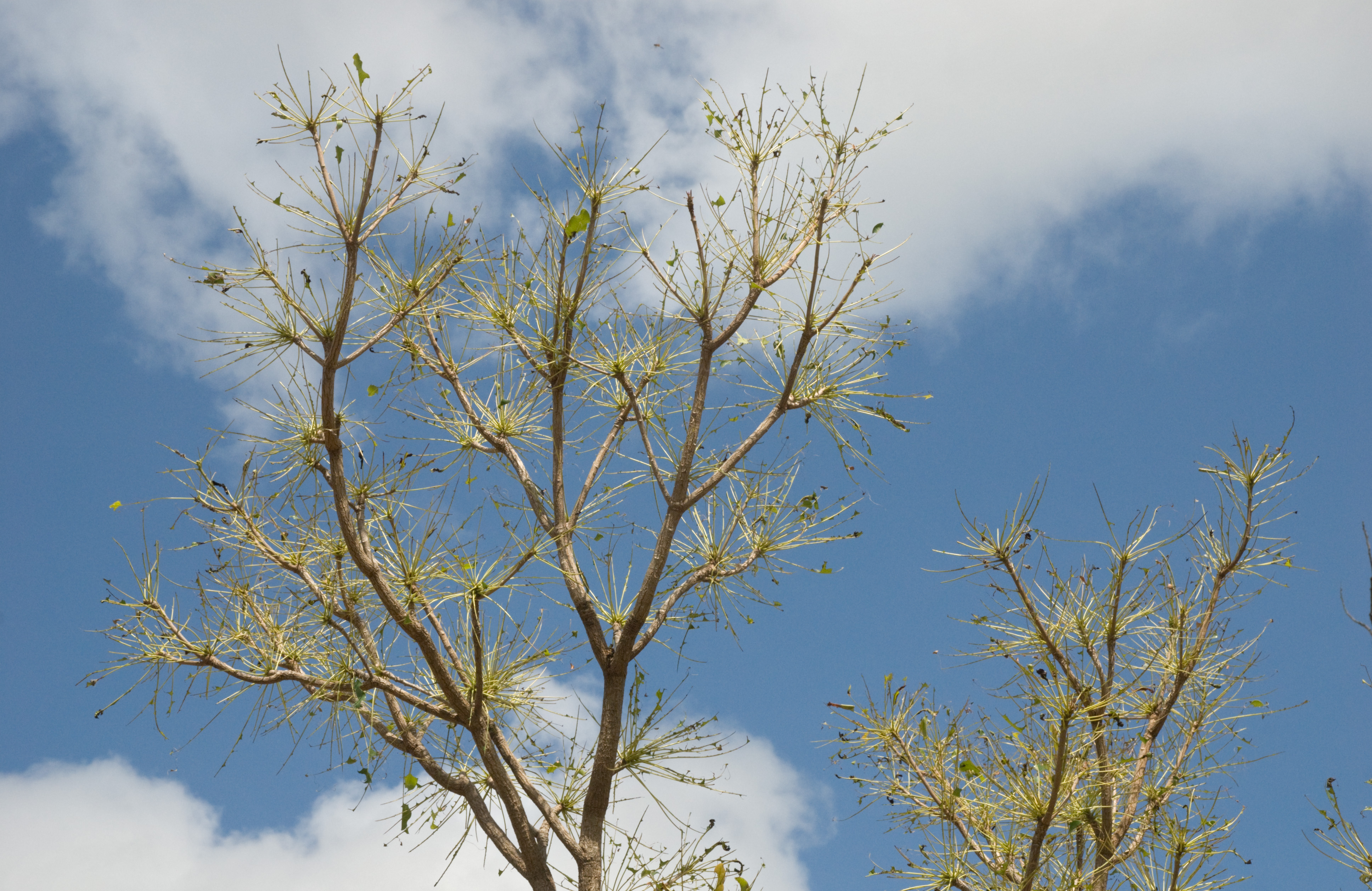 Branches of shea butter tree with leaves totally eaten by caterpillars of Cirina butyrospermi (Saturniidae, Lepidoptera), leaving the leaf stalks and the midribs of the leaf blades only (Koumbia (Tuy Province, Hauts-Bassins Region), Burkina Faso, July 2017)